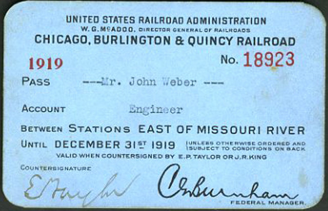 Image of a Burlington employee railroad pass during the World War I era federalization of the US Railroads which took place between 1918 and 1920. The federal bureau, director and manager are listed on its front.